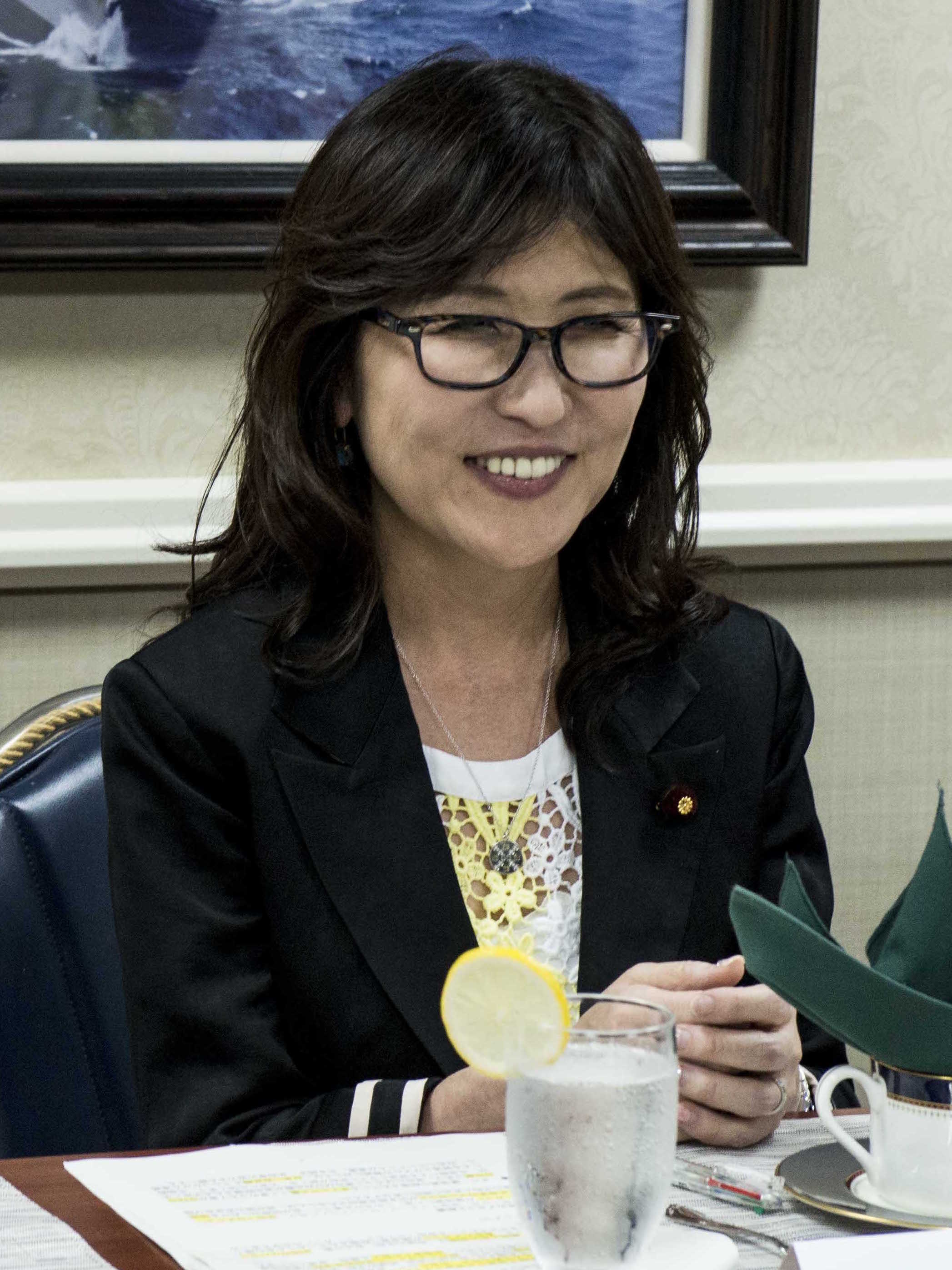 160823-N-DE001-029 YOKOSUKA, Japan (Aug. 23, 2016) Japanese Minister of Defense, Tomomi Inada, and Adm. Tomohisa Takei Maritime Staff Office chief of staff (not shown), receive a brief about the mission of forward-deployed naval forces during a tour of the U.S. Navy’s only forward-deployed aircraft carrier, USS Ronald Reagan (CVN 76). Ronald Reagan is forward deployed to Japan in support of security and stability in the Indo-Asia-Pacific. (U.S. Navy photo by Mass Communication Specialist 2nd Class Adrienne Powers/ Released)